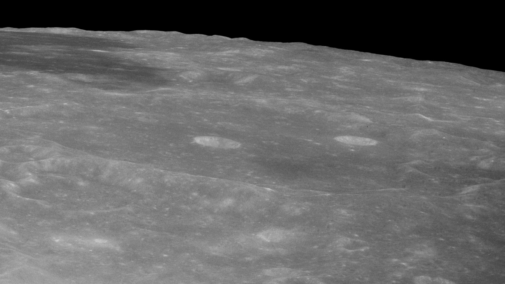 Oblique view of Babcock crater on the moon, facing west. The central small bright crater within Babcock is called Zasyadko. Northern Mare Smythii is in the upper left. Contrast and brightness have been adjusted for clarity.